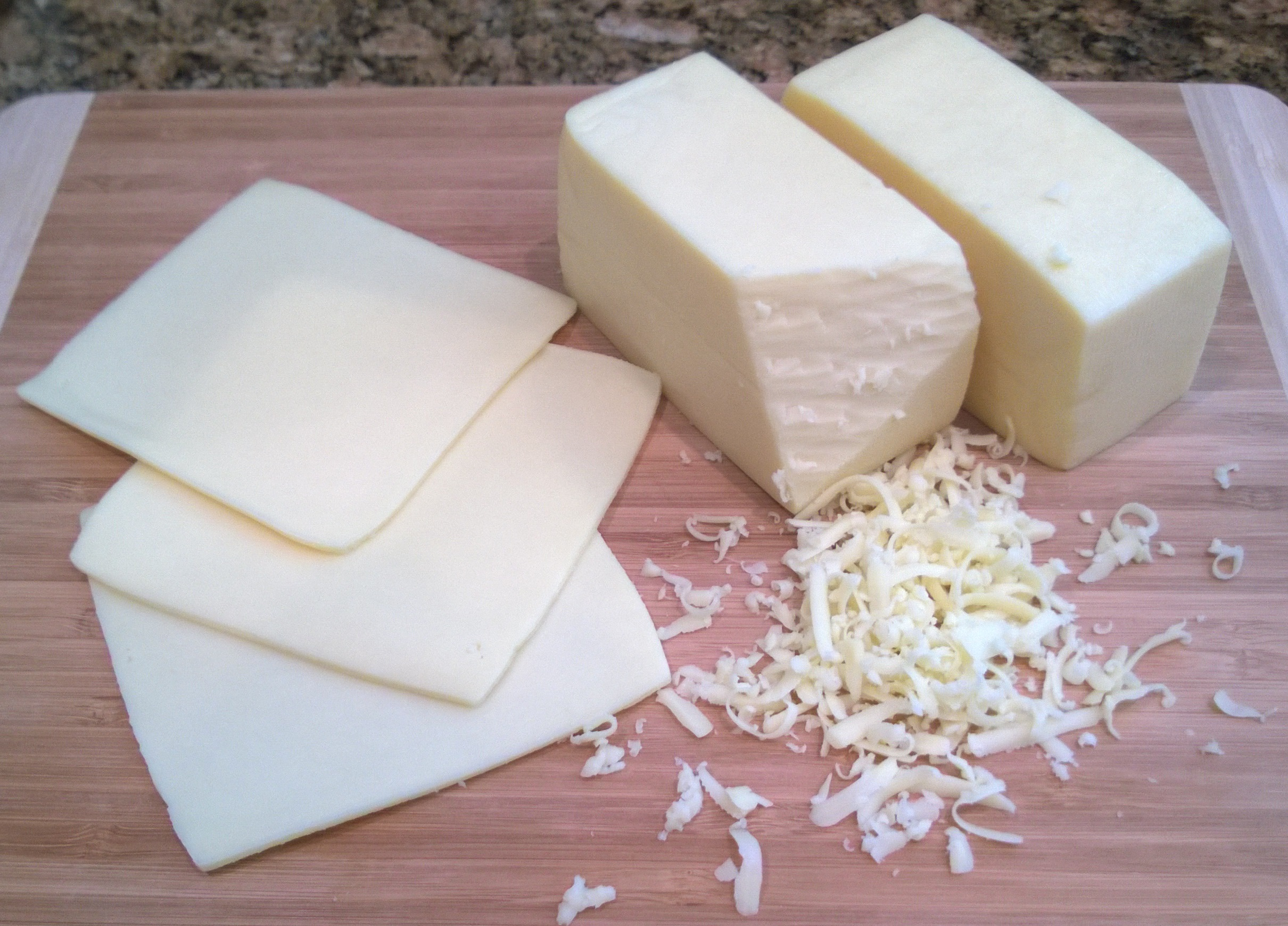 Two blocks, three slices, and gratings of Butterkäse